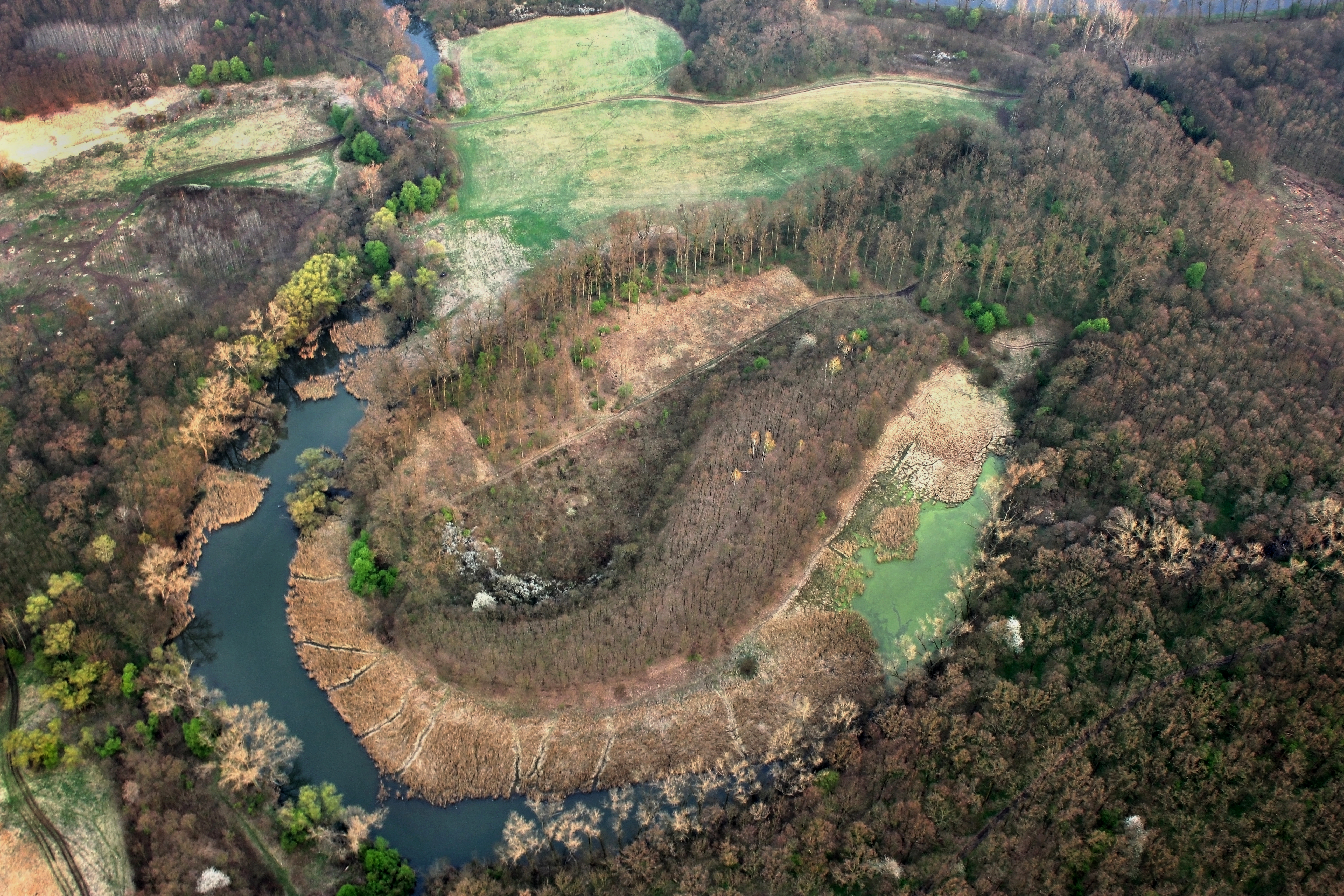 Aeriel view of nature reserve Mydlovarský luh in Nymburk District, Czech Republic